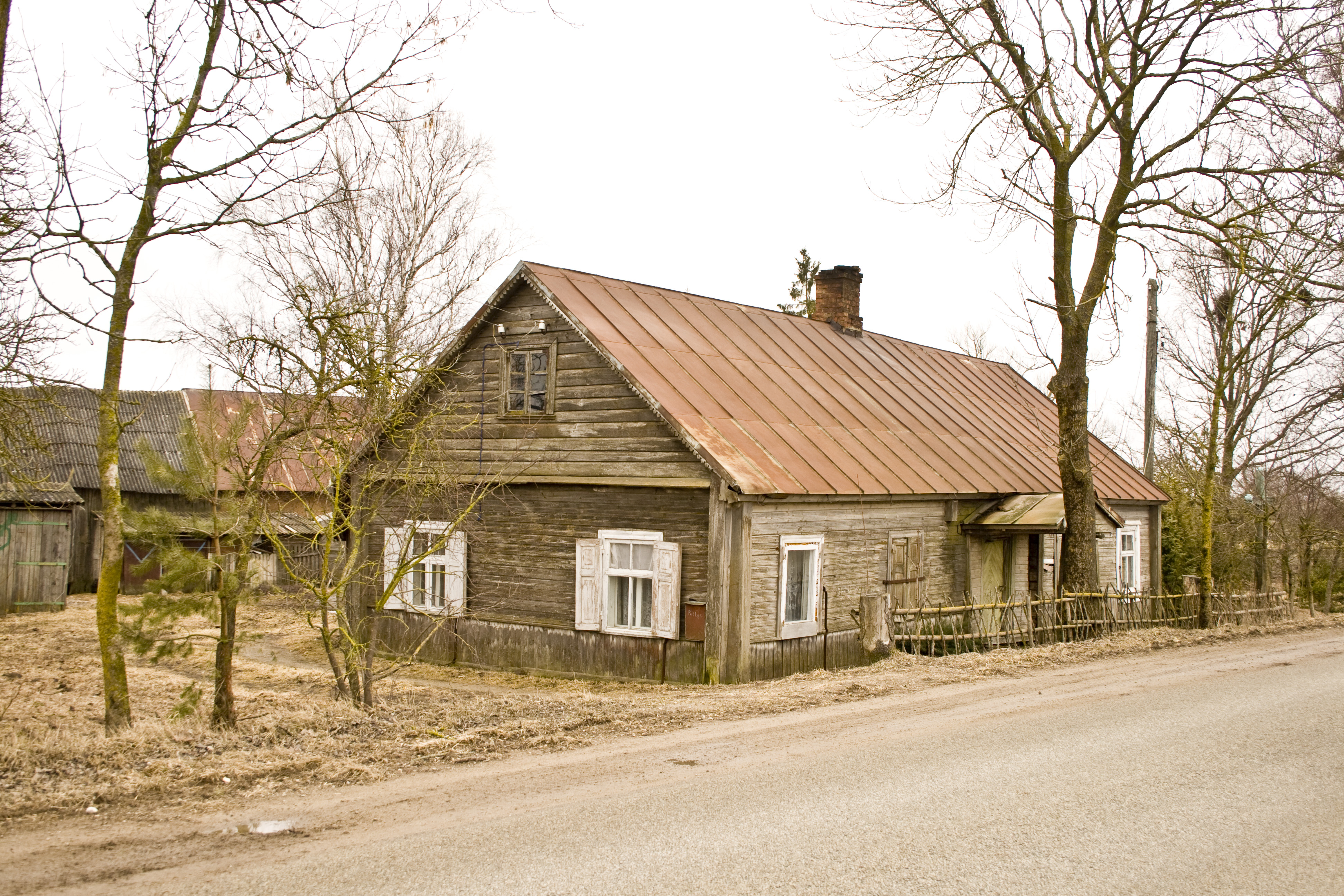 at the road-side